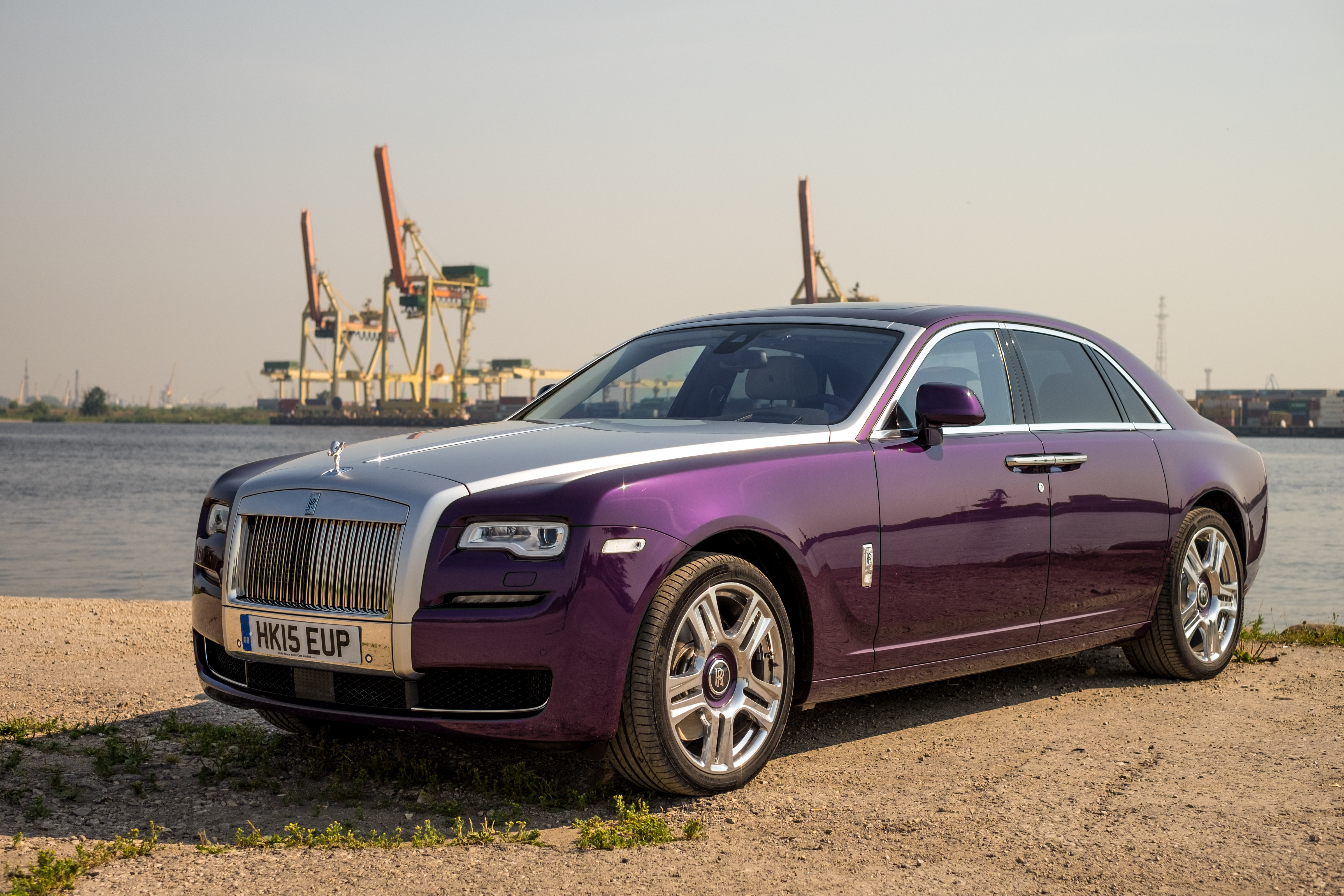 Rolls Royce Ghost 2015